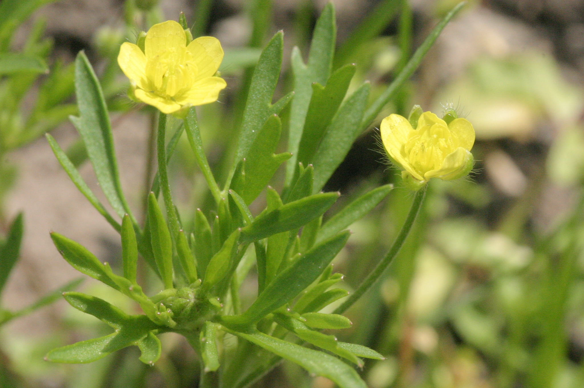 Ranunculus arvensis